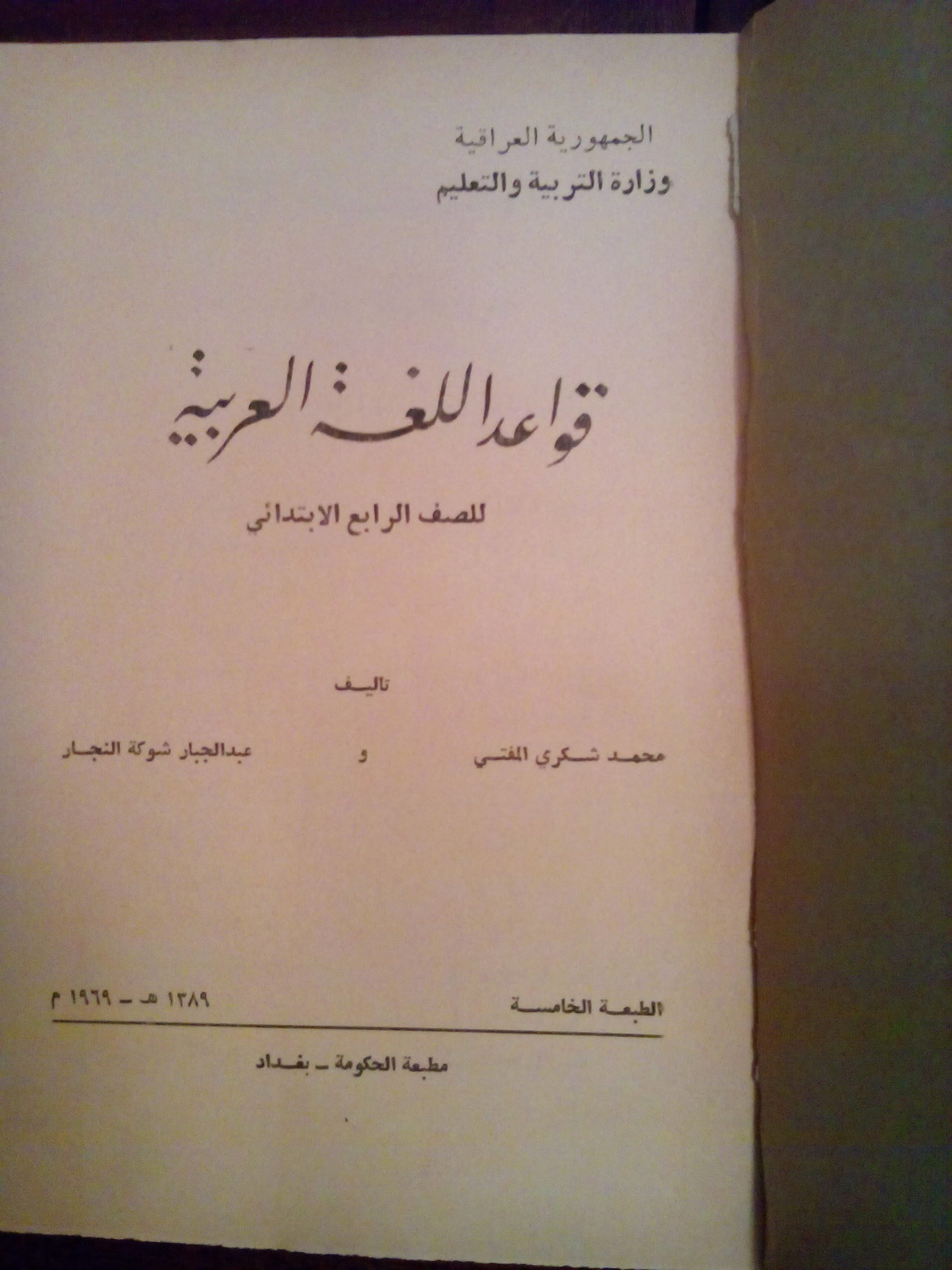 Old book from Baghdad in Arabic Language in 1969